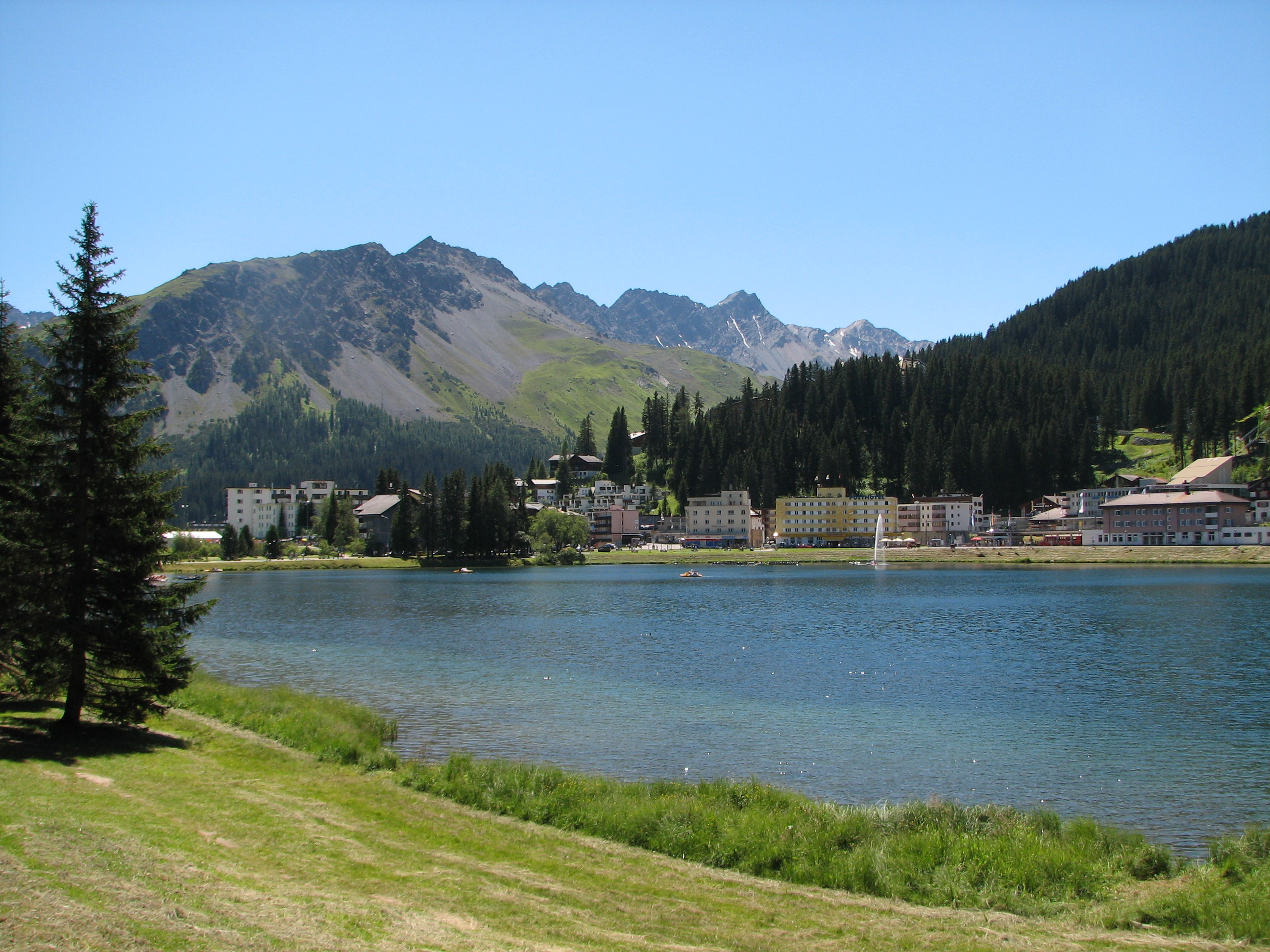 Obersee, the upper lake at Arosa, Switzerland